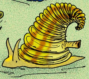 My reconstruction of the Early Cambrian basal mollusc Yochelcionella cyrano, from what is now Siberia